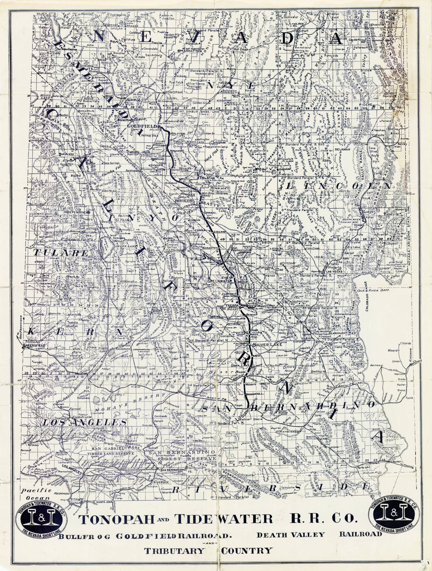 Map showing Tonopah Tidewater Railroad Company line from Ludlow California to Goldfield Nevada circa 1907